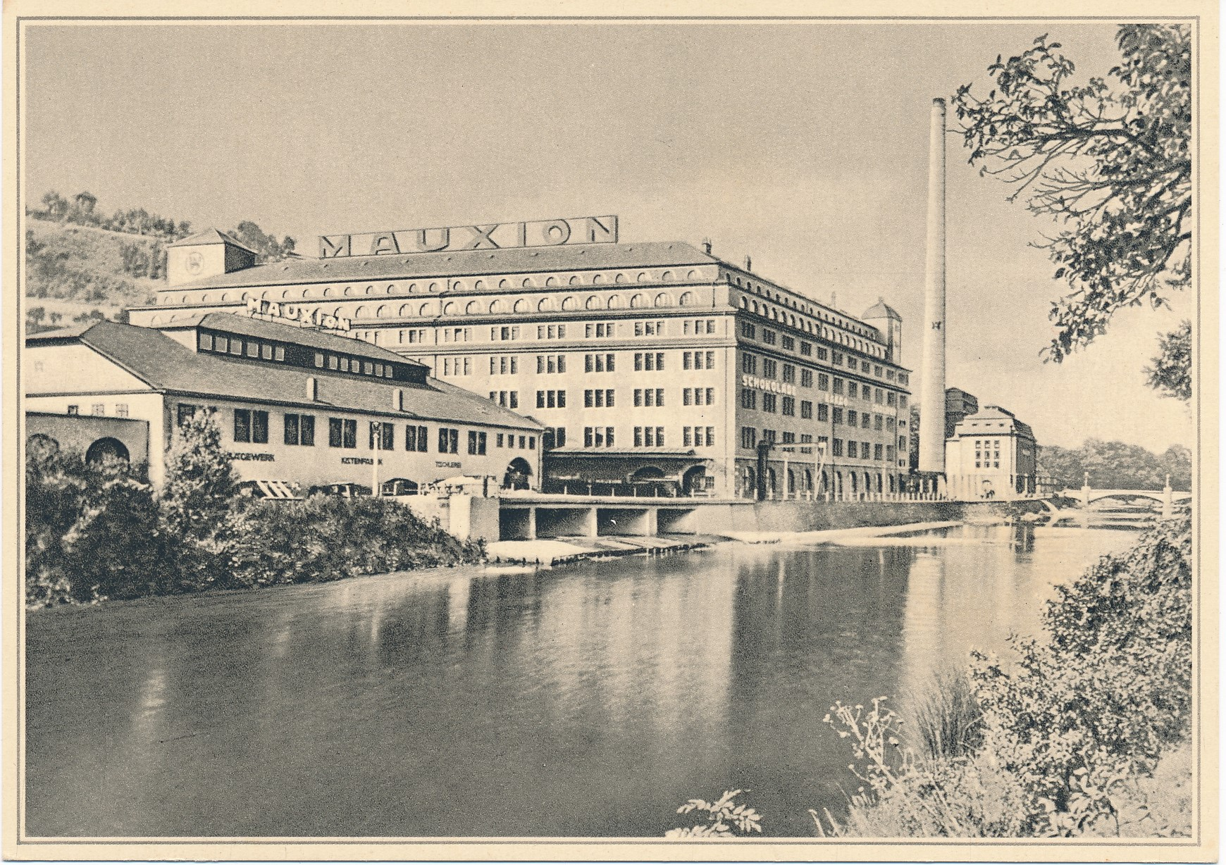 Postcard of the Mauxion chocolate factory in Saalfeld/Saale (Germany)